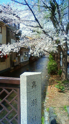 Takase River. Takase River, Kyoto.